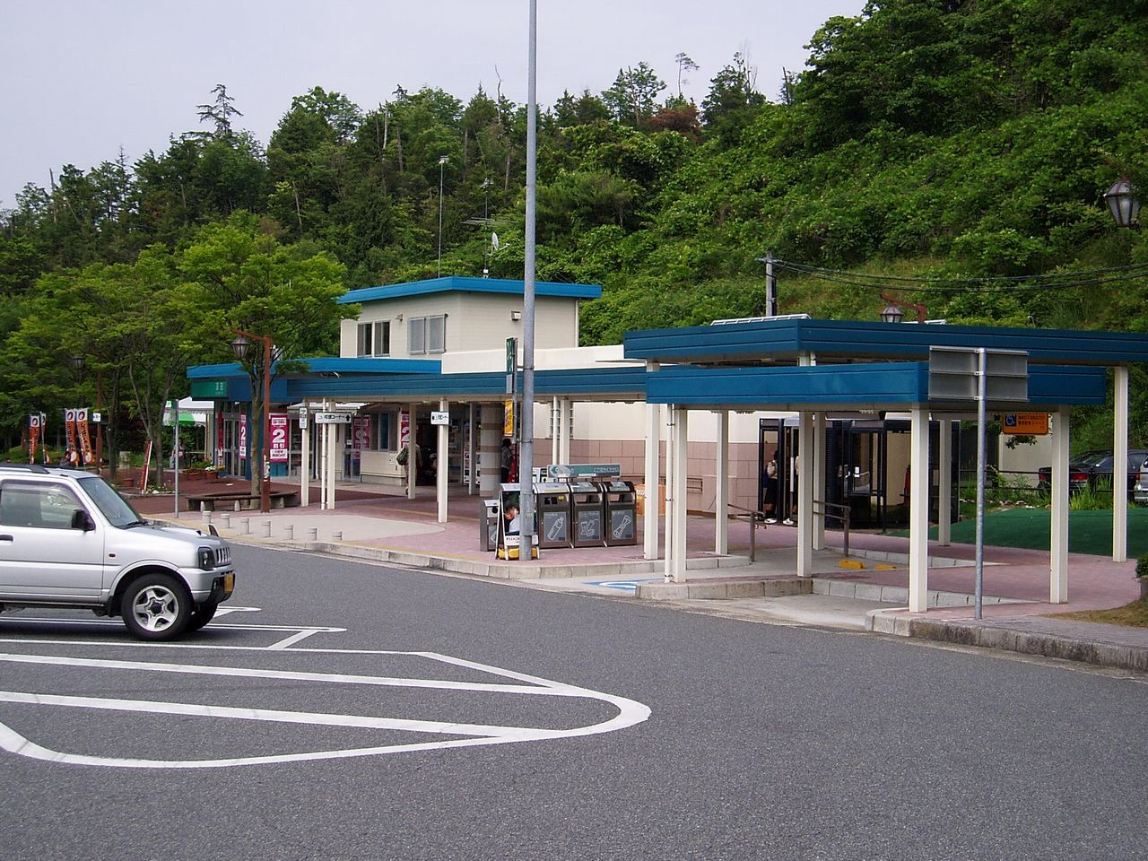 Shop at Numata Parking Area on the Sanyo Expway outbound line for Yamaguchi